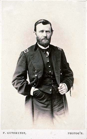 Ulysses S. Grant (1822–1885)In this photograph taken in the spring of 1865, Ulysses S. Grant is seen wearing a black mourning band around his left arm in remembrance of the assassination of President Abraham Lincoln, which occurred five days after Lee’s surrender at Appomattox.